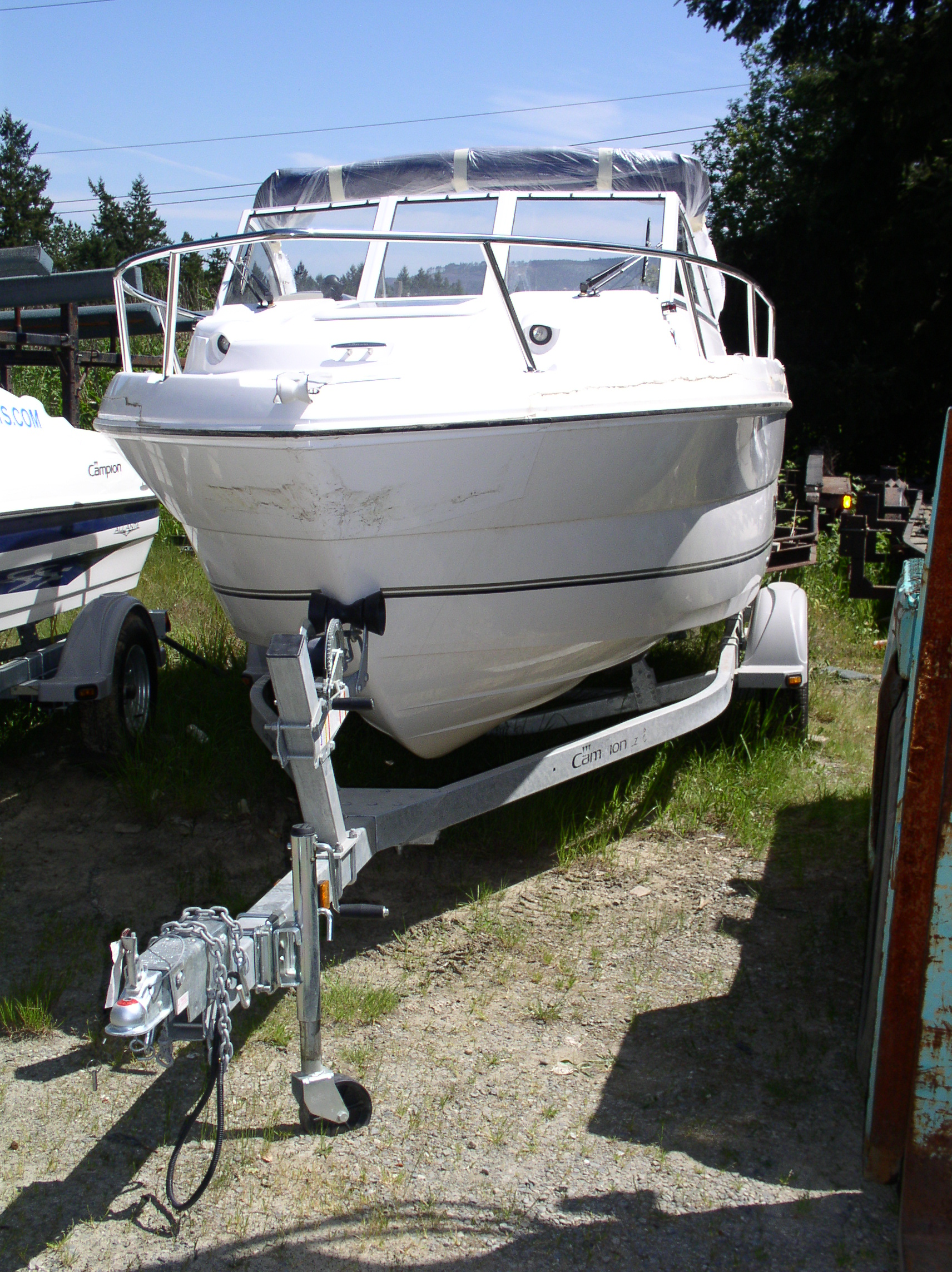 A Campion 542 boat on a EZLoader Trailer